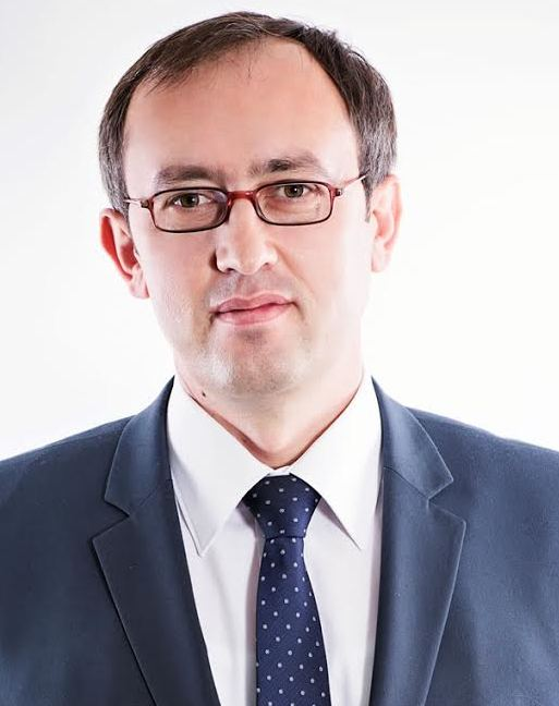 Minister of Finance of Republic of Kosovo